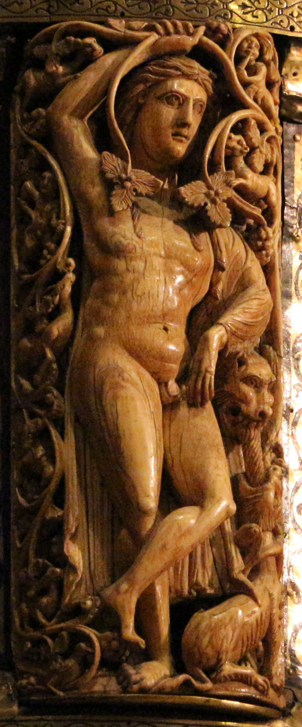 Heinrichskanzel